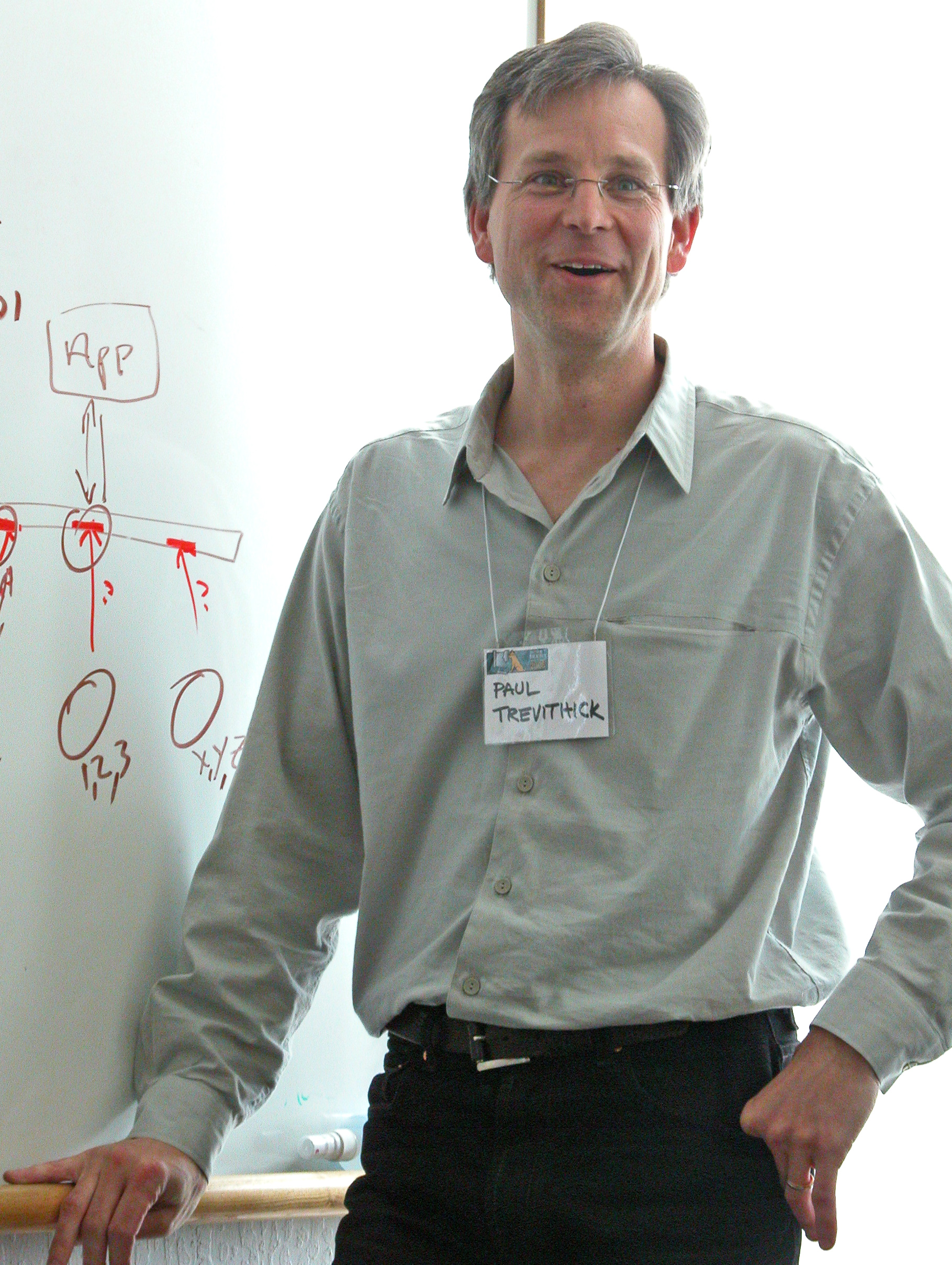 Paul Trevithick standing next to a Whiteboard at the Internet Identity Workshop 2006